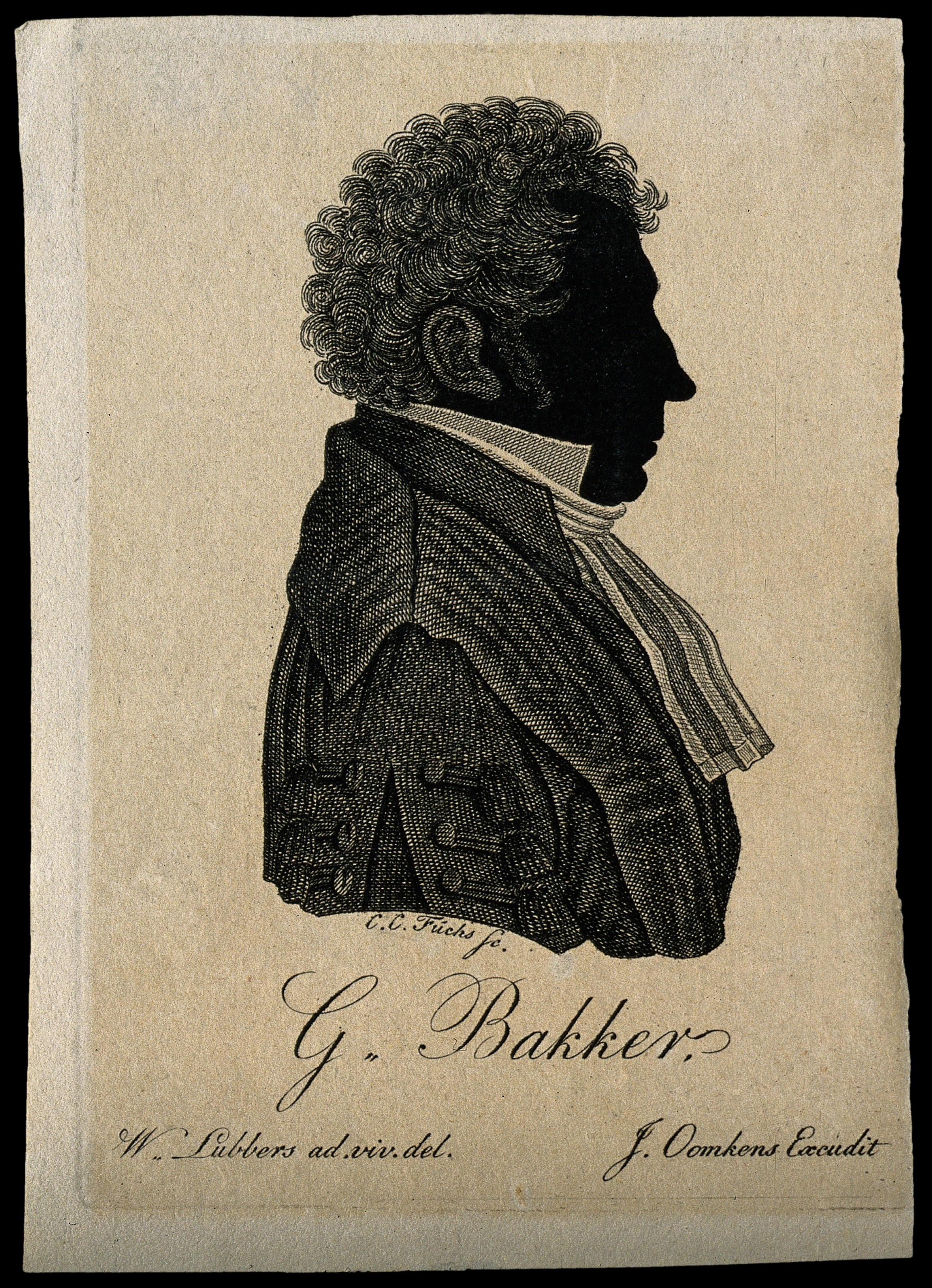 Gerbrand Bakker. Line engraving by C. C. Fuchs after W. Lubbers. Iconographic Collections Keywords: portrait prints; Gerbrand Bakker; engravings; bakker, gerbrand, 1771-1828; C. C. Fuchs